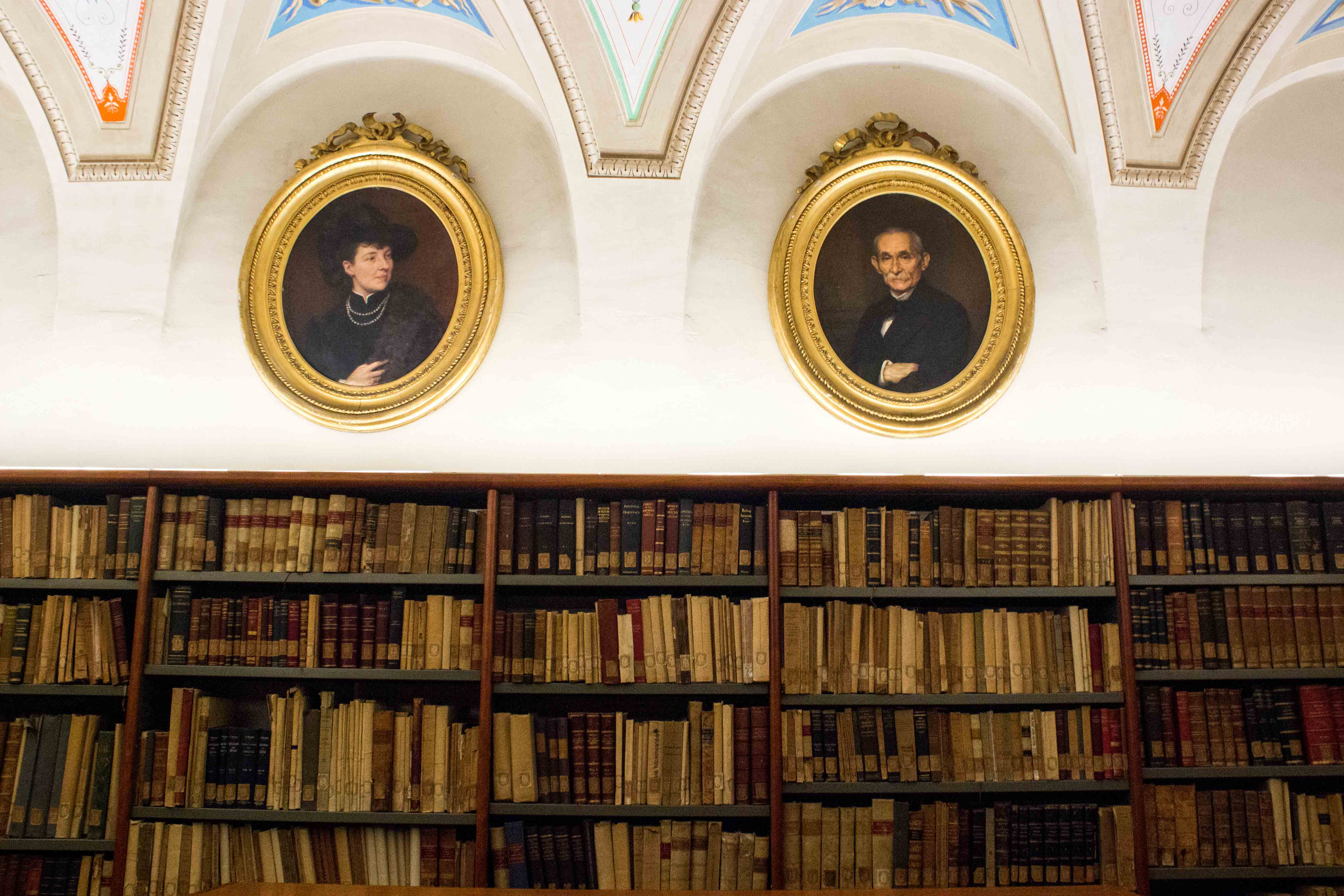 mozzi borgetti